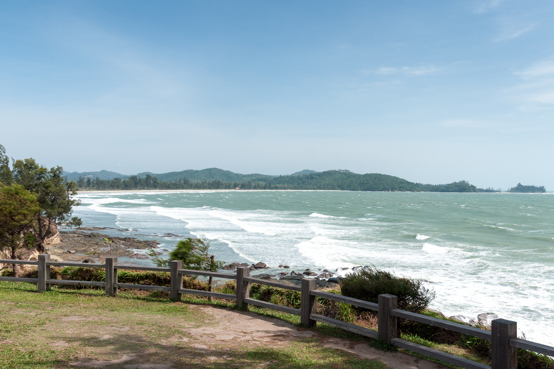 Kudat, Sabah: Tanjung Simpang Mengayau (Tip of Borneo)